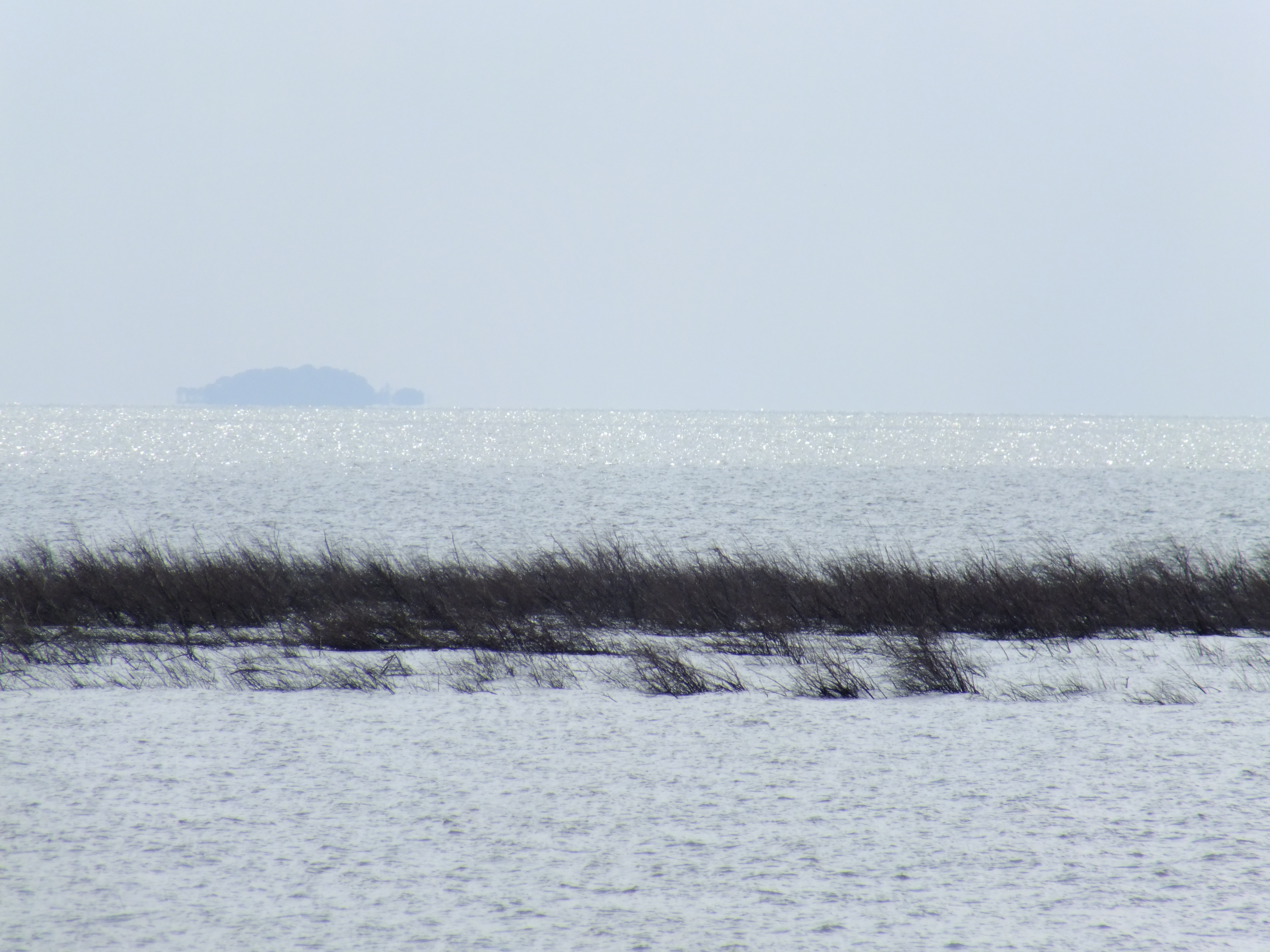 Lake Bolon